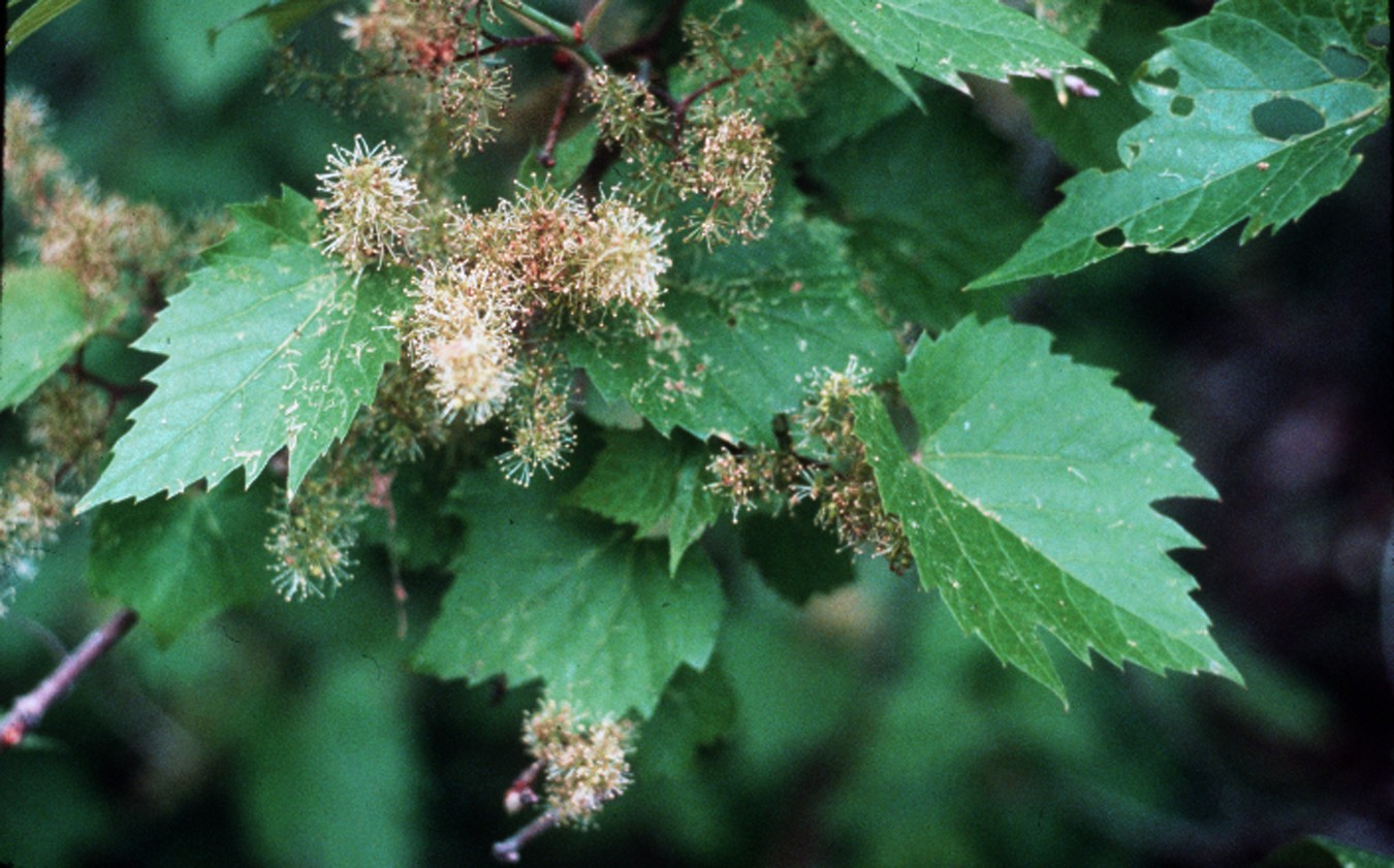 Species:Vitis riparia, Familia:Vitaceae